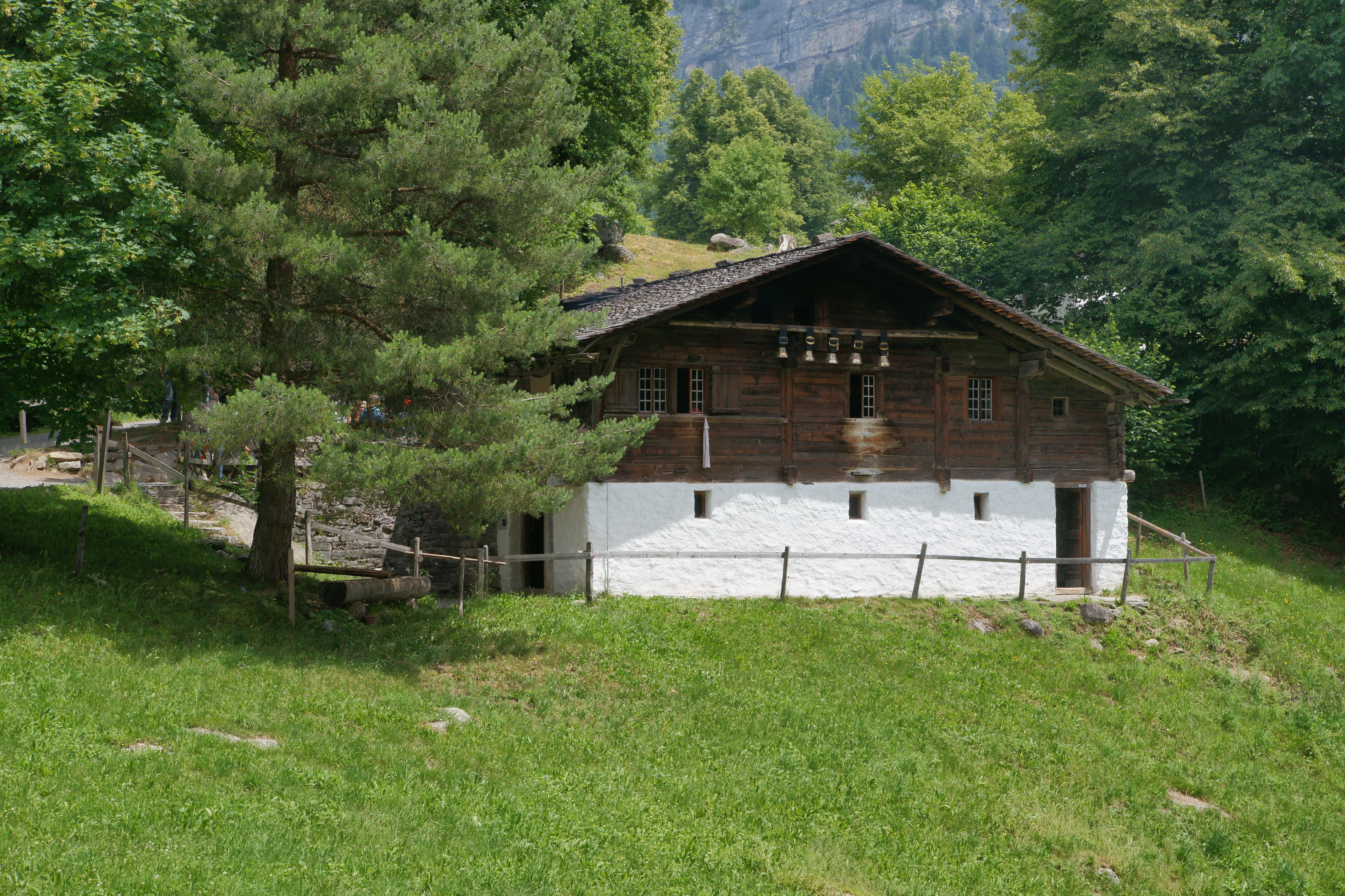 Swiss Open Air Museum Ballenberg: Alpine cheese dairy of Kandersteg / BE (1780)